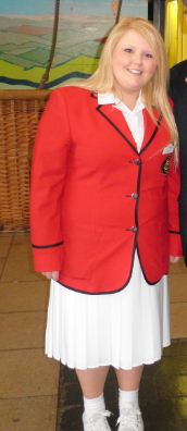 Photograph of a female Redcoat at Butlin's Minehead in March 2011